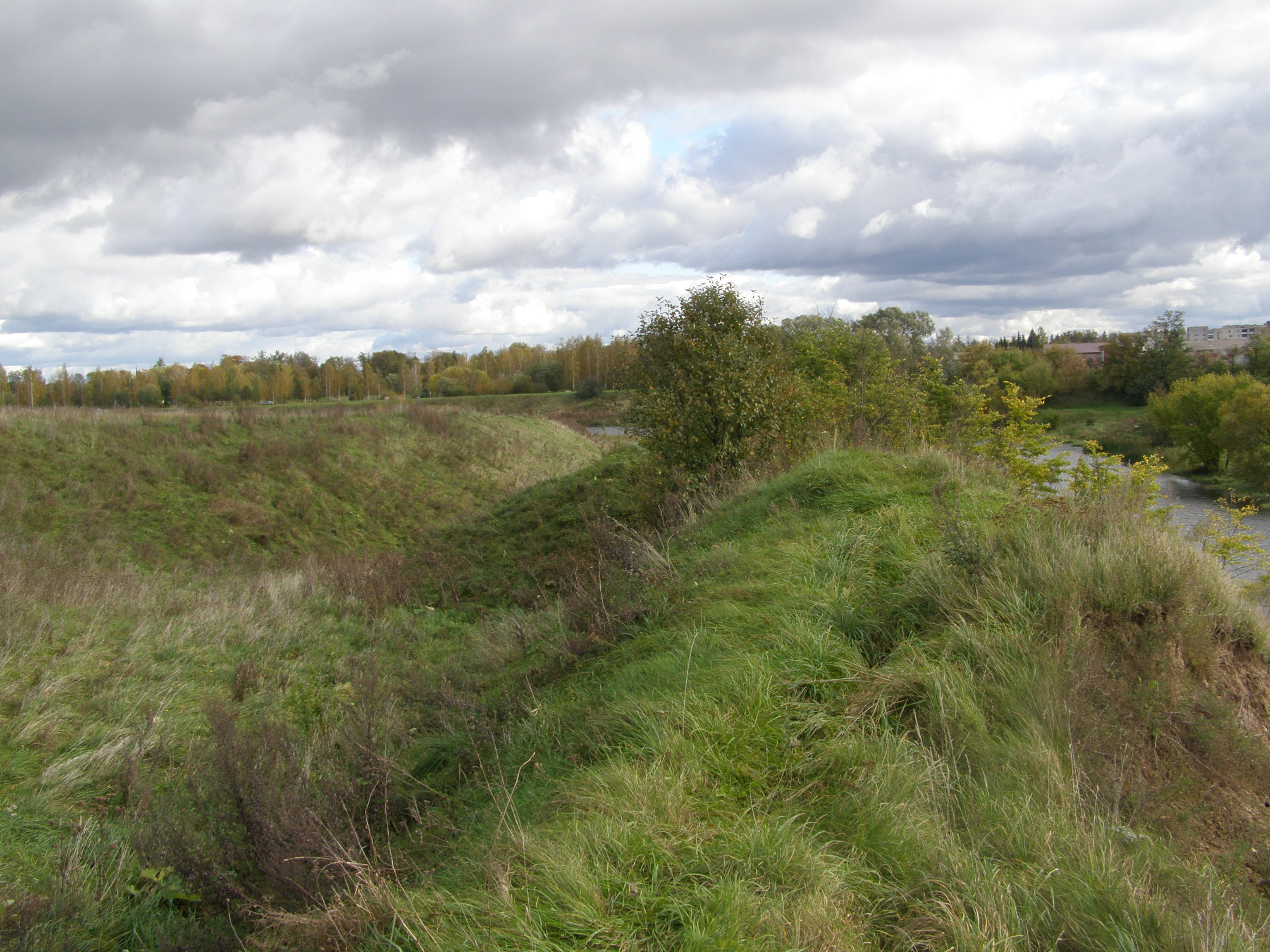 Marijampolė (Meškučiai) hillforts, Marijampolė district, Lithuania